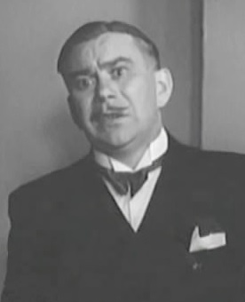 Mikhail Yanshin in Boyevoy kinosbornik # 7. Priemschik katastrof (1941)